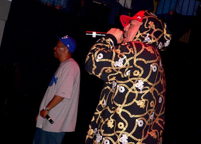 Beatnuts performing live at Skaters Palace Café (Münster) in Germany.